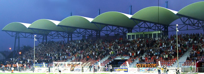 KSZO Ostrowiec supporters during match against Sandecja Nowy Sacz